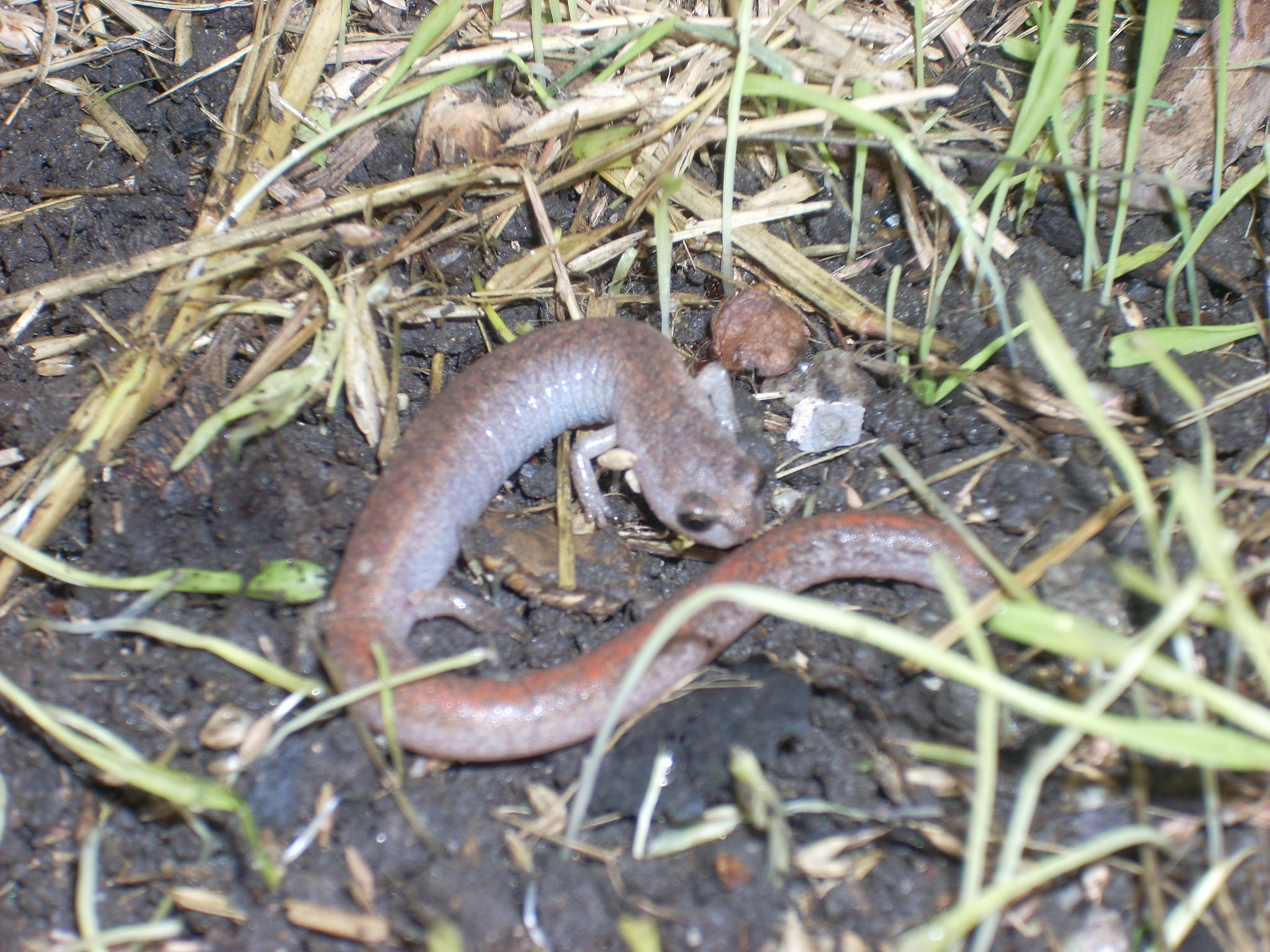 Batrachoseps major major - Garden Slender Salamander, photographed in Culver City, California, January 2011 Author: User:Jengod